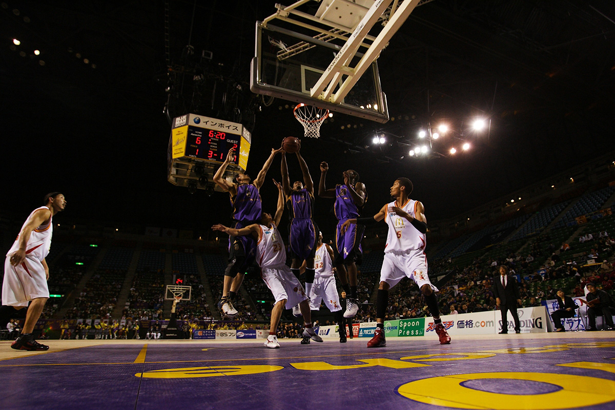 FEBRUARY 15, 2009 - Basketball : bj-league 2008-2009 match at Ariake Coliseum on February 15, 2009 in Tokyo, Japan. (Photo by Tsutomu Takasu)